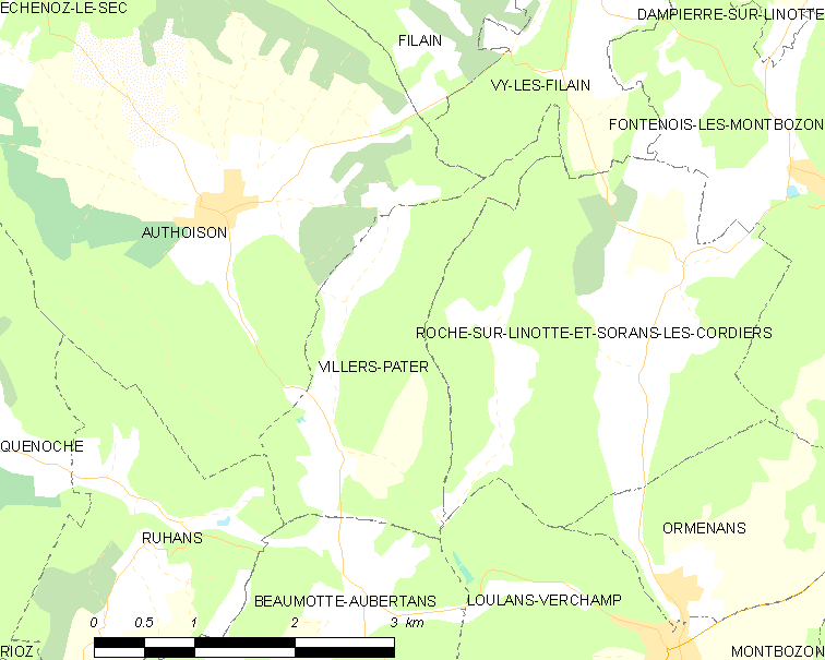 Map of French municipality